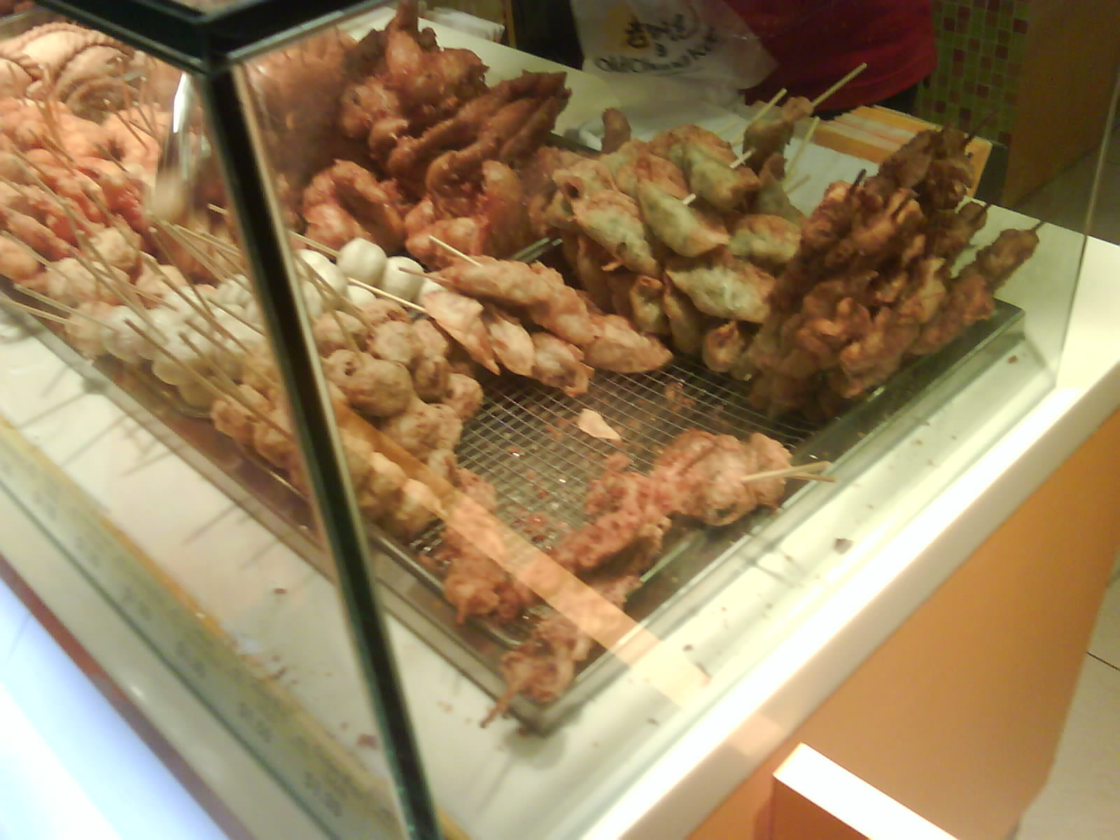 A photo of an example of the food that Old Chang Kee sells. Taken from the outlet at Junction 8, Singapore.